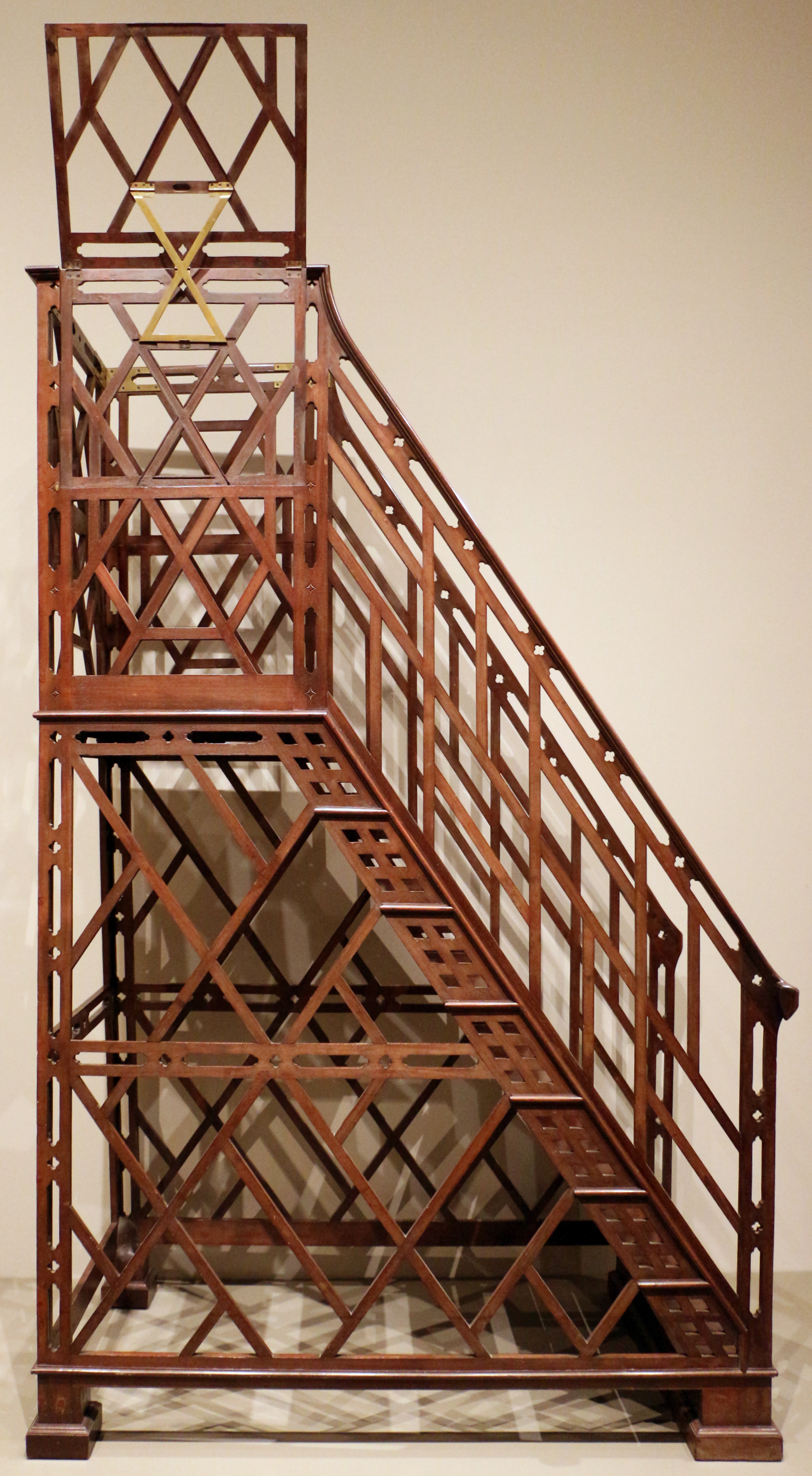 European furniture in the Art Institute of Chicago